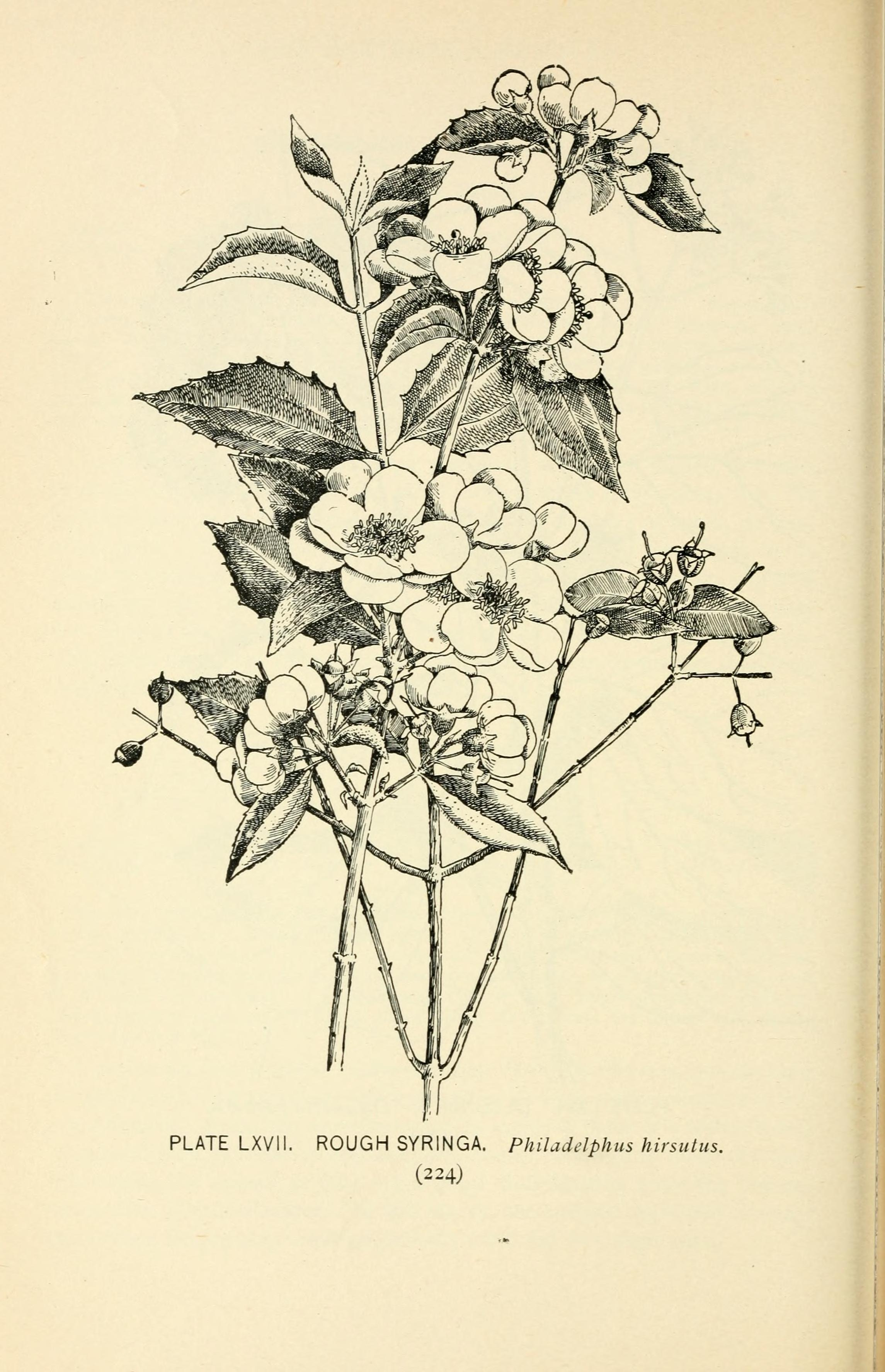 Southern wild flowers and trees, together with shrubs, vines and various forms of growth found through the mountains, the middle district and the low country of the South, by Alice Lounsberry, with plates, vignettes and diagrams by Mrs. E. Rowan, with an introduction by C. D. Beadle.